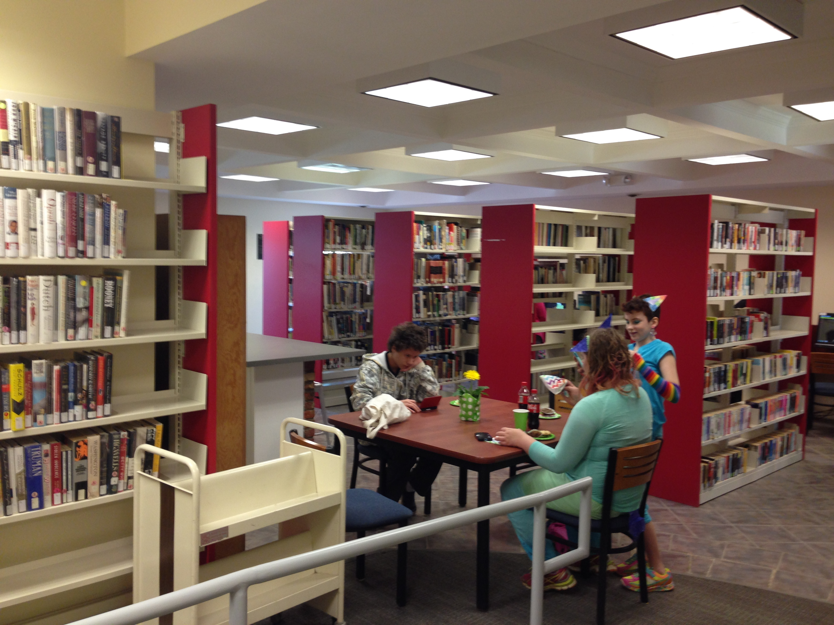 Sharpsburg Community Library.